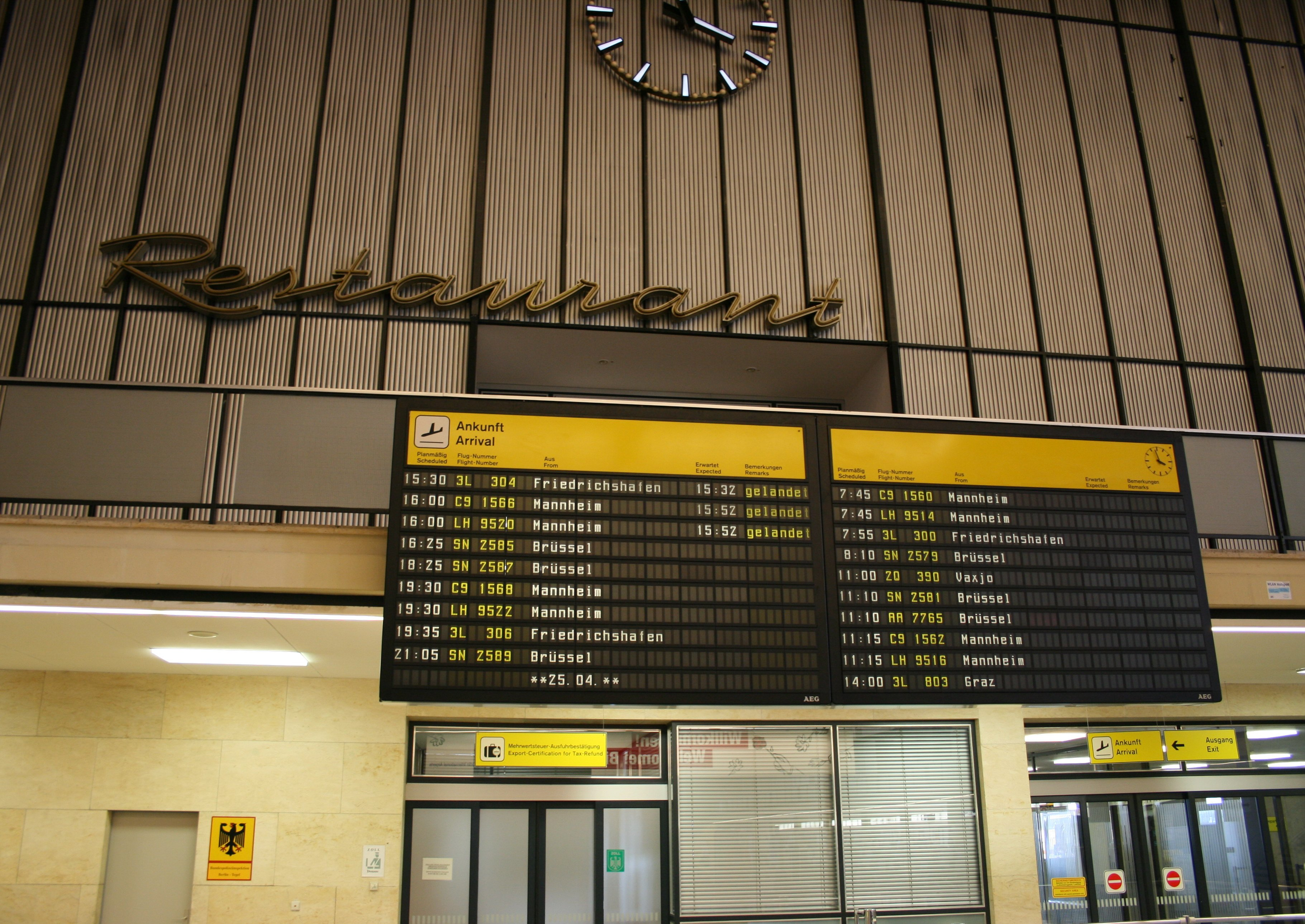 Display board in the main area of the departure hall of the airport Berlin-Tempelhof. At the time of recording (6 months before the end of operation), only a few nearby destinations were served in regular service.